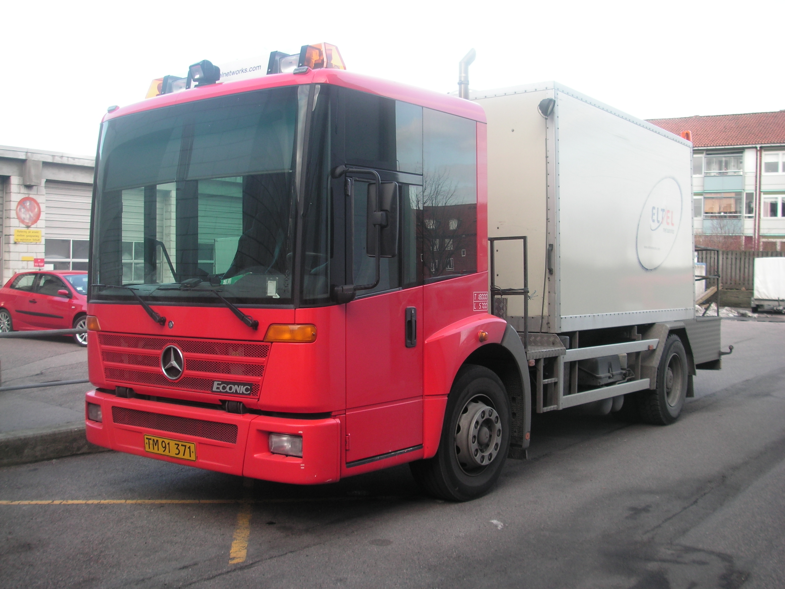 Mercedes-Benz Econic built as a service truck for the power/tele company ElTel. Tool panels, lift for cable/street lamp service (not visible here).